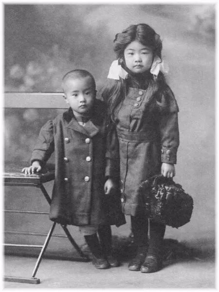 Children of Japanese writer Ougai Mori. L-R: Rui (1911-1991) and Mari (1903-1987).